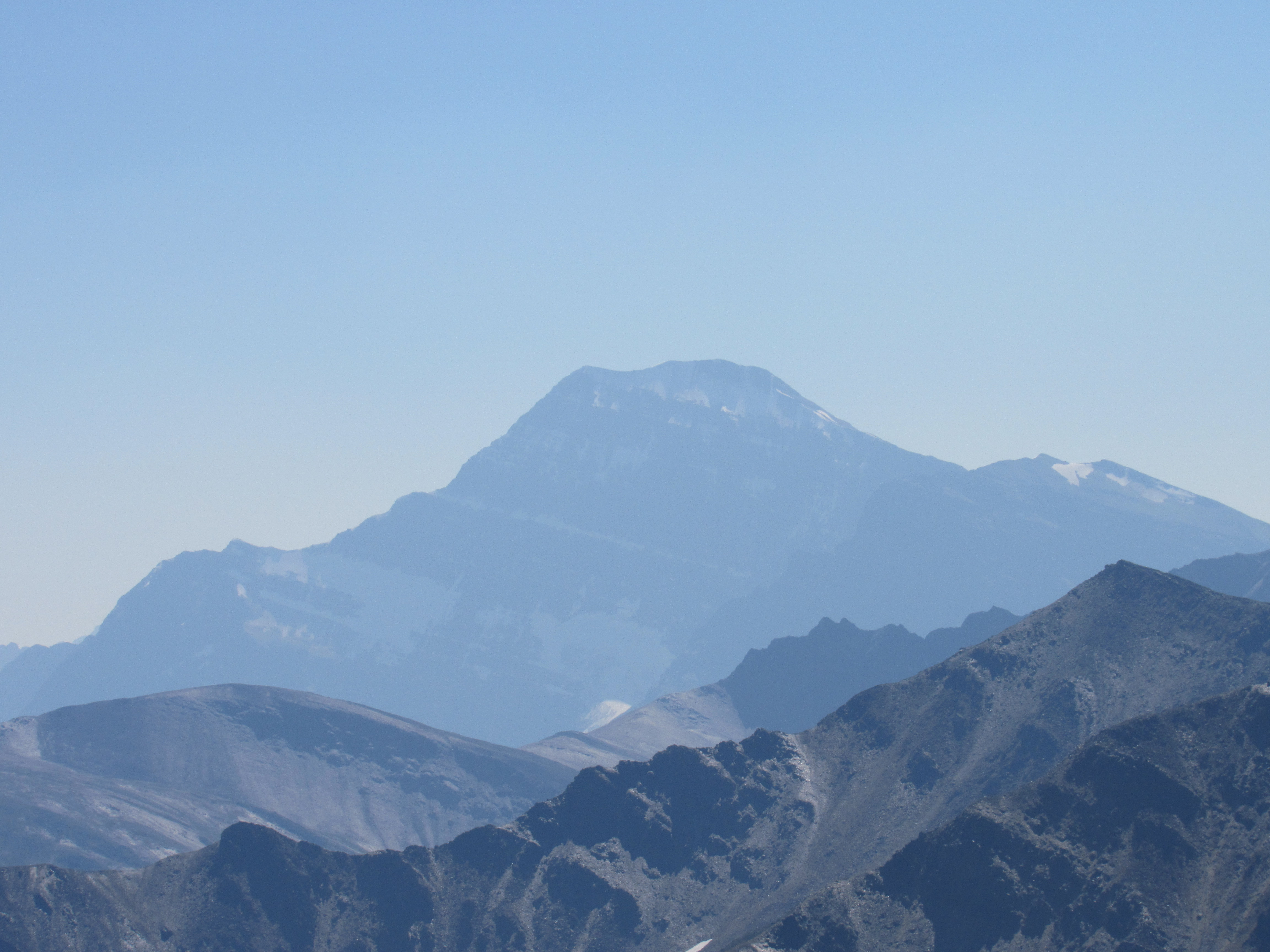 Mount Edith Cavell is a mountain located in the Athabasca River and Astoria River valleys of Jasper National Park. I took this photo from the Whistler Summit.